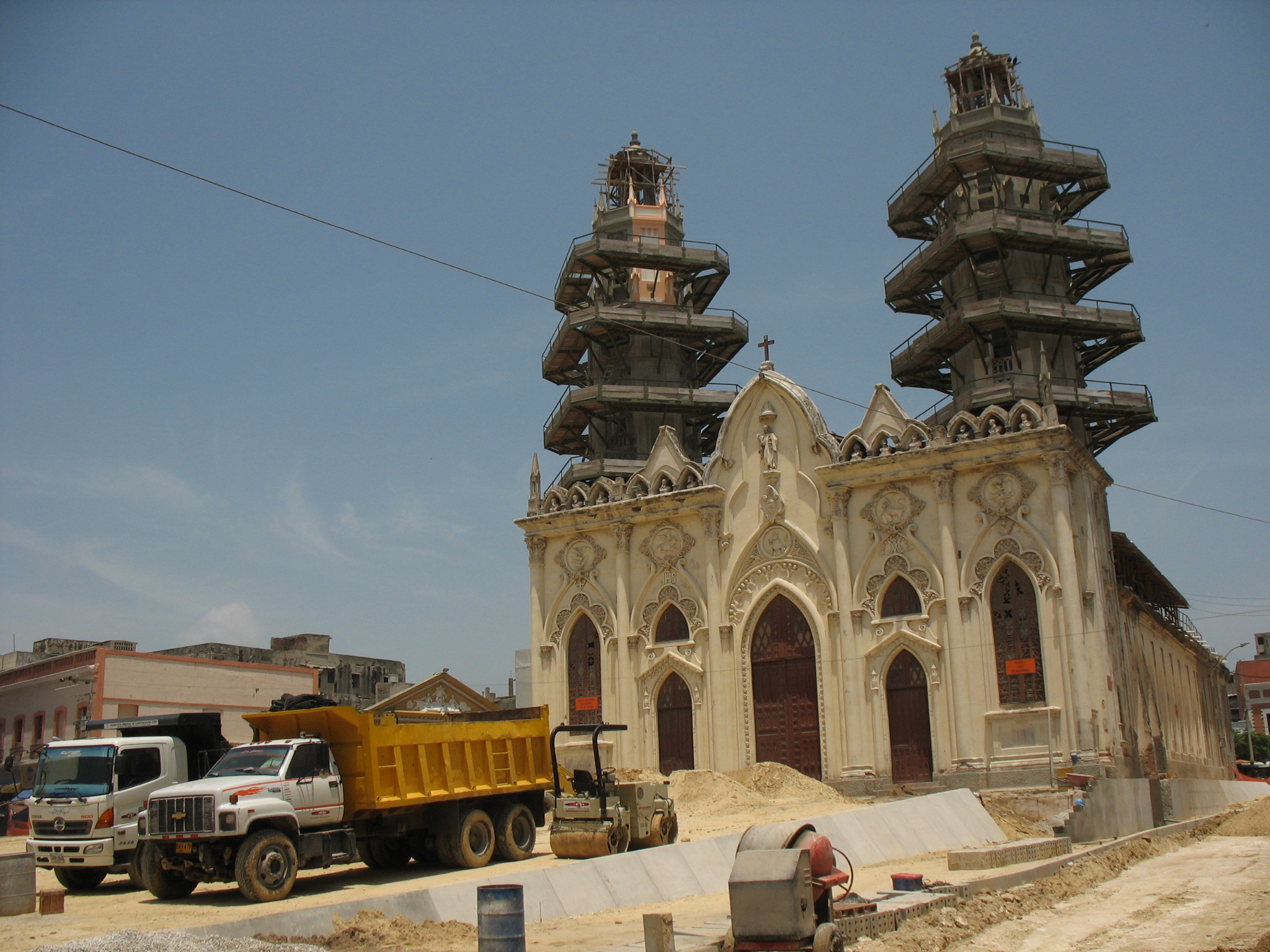 San Nicolas works